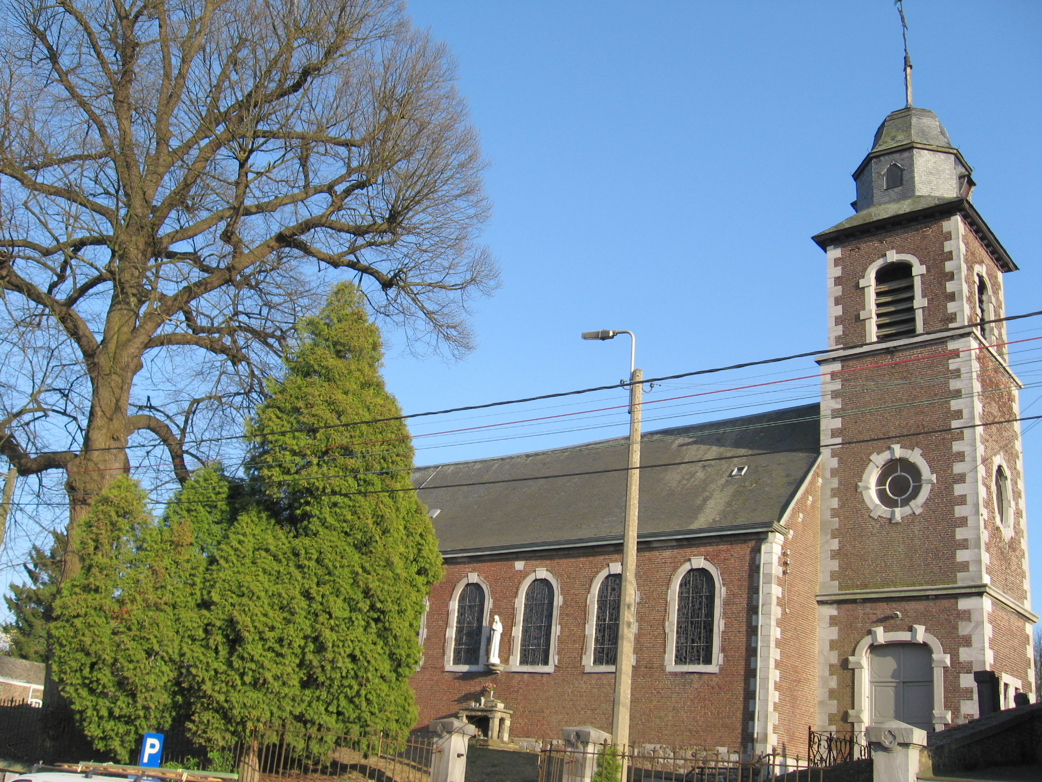 Church of Saint John the Baptiser in Bierset, Grâce-Hollogne, Liège, Belgium